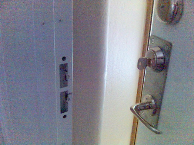 This is a strike plate that is included in the steel doorframe, normally a strike is a metalplate attached to wood. Also pictured is the lock that attaches to the strike.